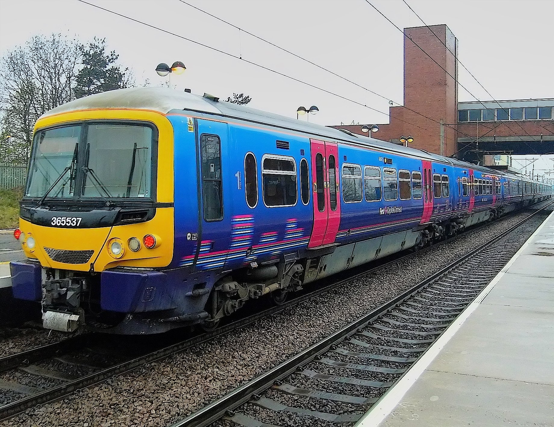 First Capital Connect Class 365 No. 365537 at Stevenage